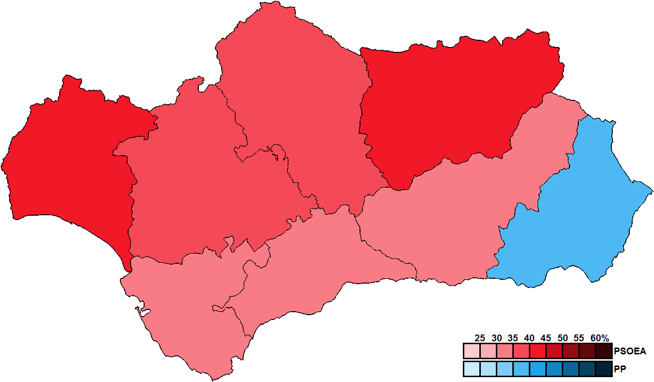 Provincial results for the 2015 Andalusian regional election.